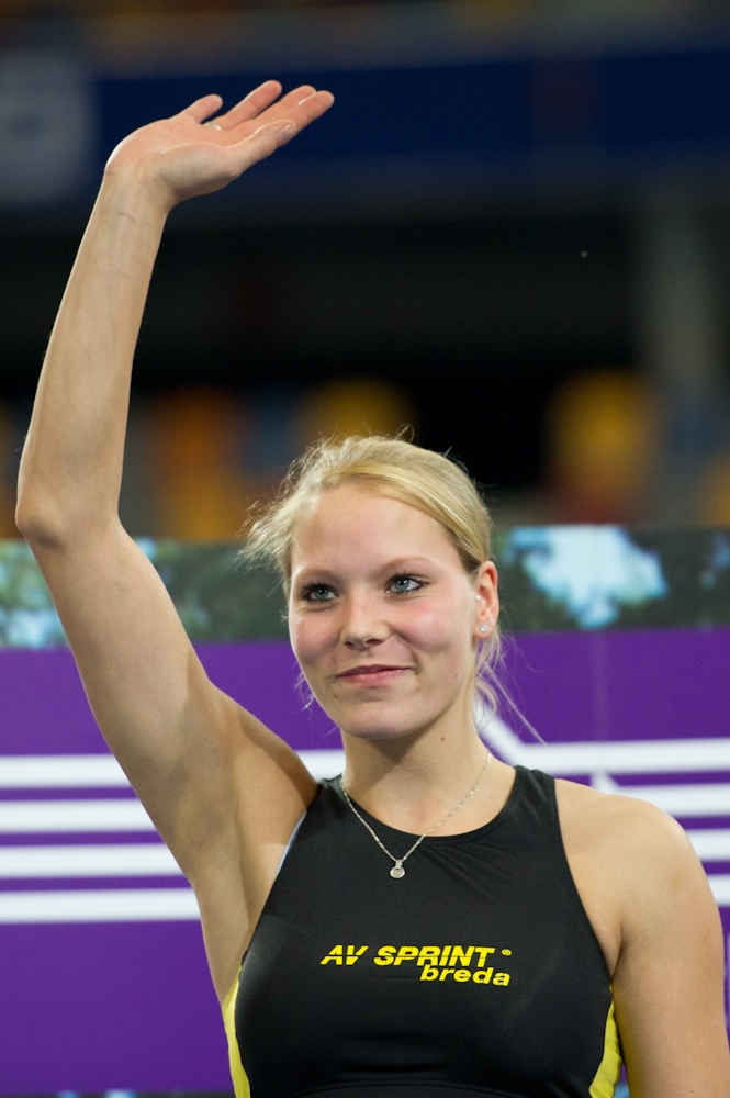 Nadine Broersen after winning the 2011 Dutch indoor pentathlon title, Febr. 2011, Apeldoorn